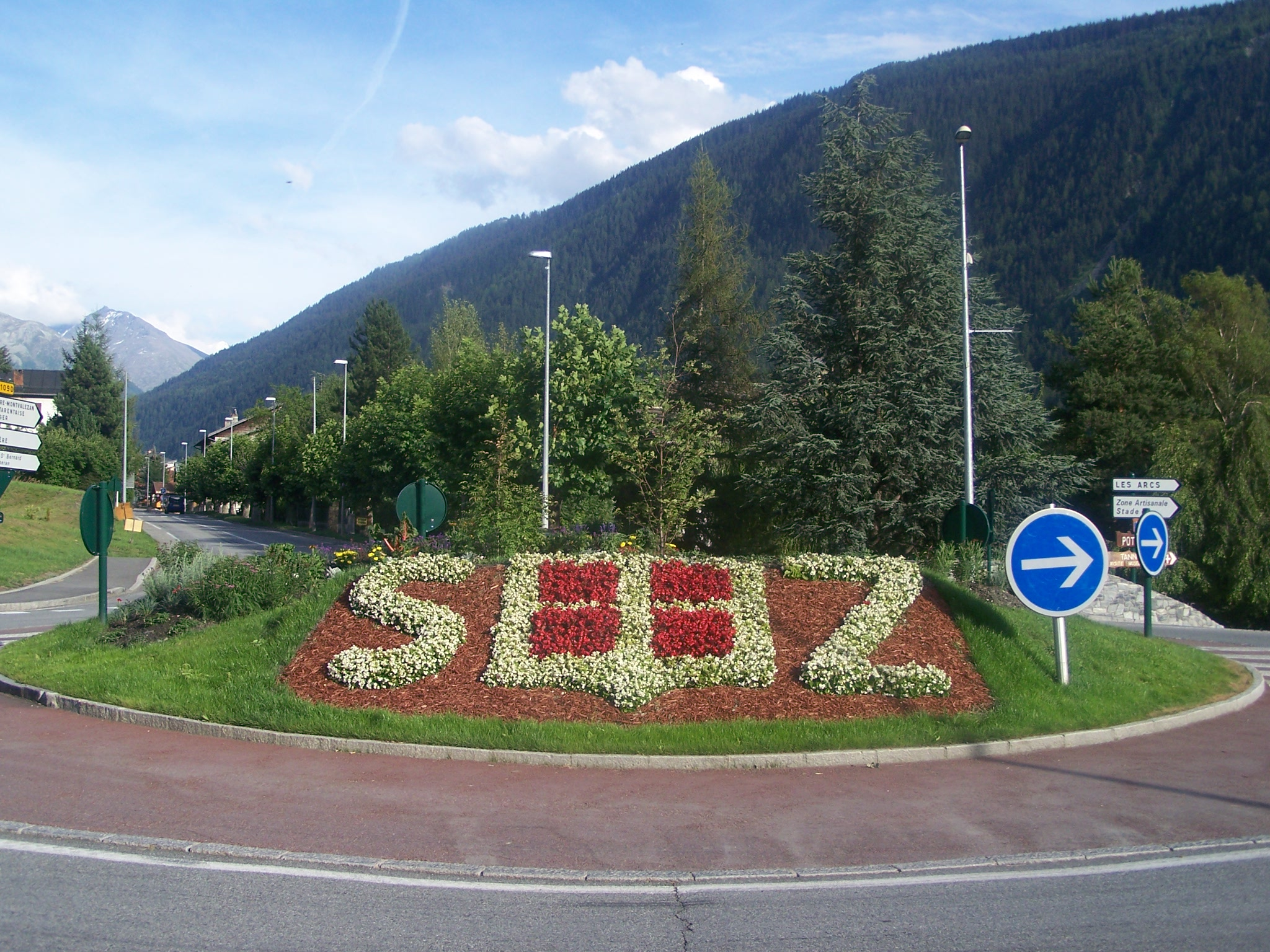 First roundabout when entering the commune of Séez in Savoie and welcoming visitors.Can be recognized, formed by the two "E", the Savoyan coat of arms.